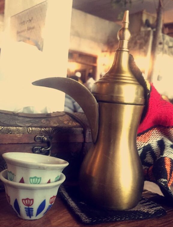 Arabic coffee